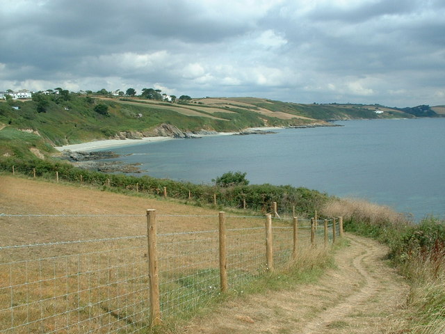 looking back to Porthbean Beach. on route Southwest Coast Path